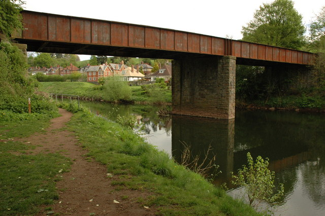 Disused railway bridge at Usk This disused railway bridge over the River Usk at Usk used to carry railway line from Pontypool to Usk, the line closed in the 1950s.